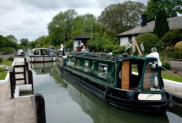 Radcot Lock on the River Thames, Oxfordshire. Radcot Lock was built in 1892. The original lock was called Harper's Weir House.